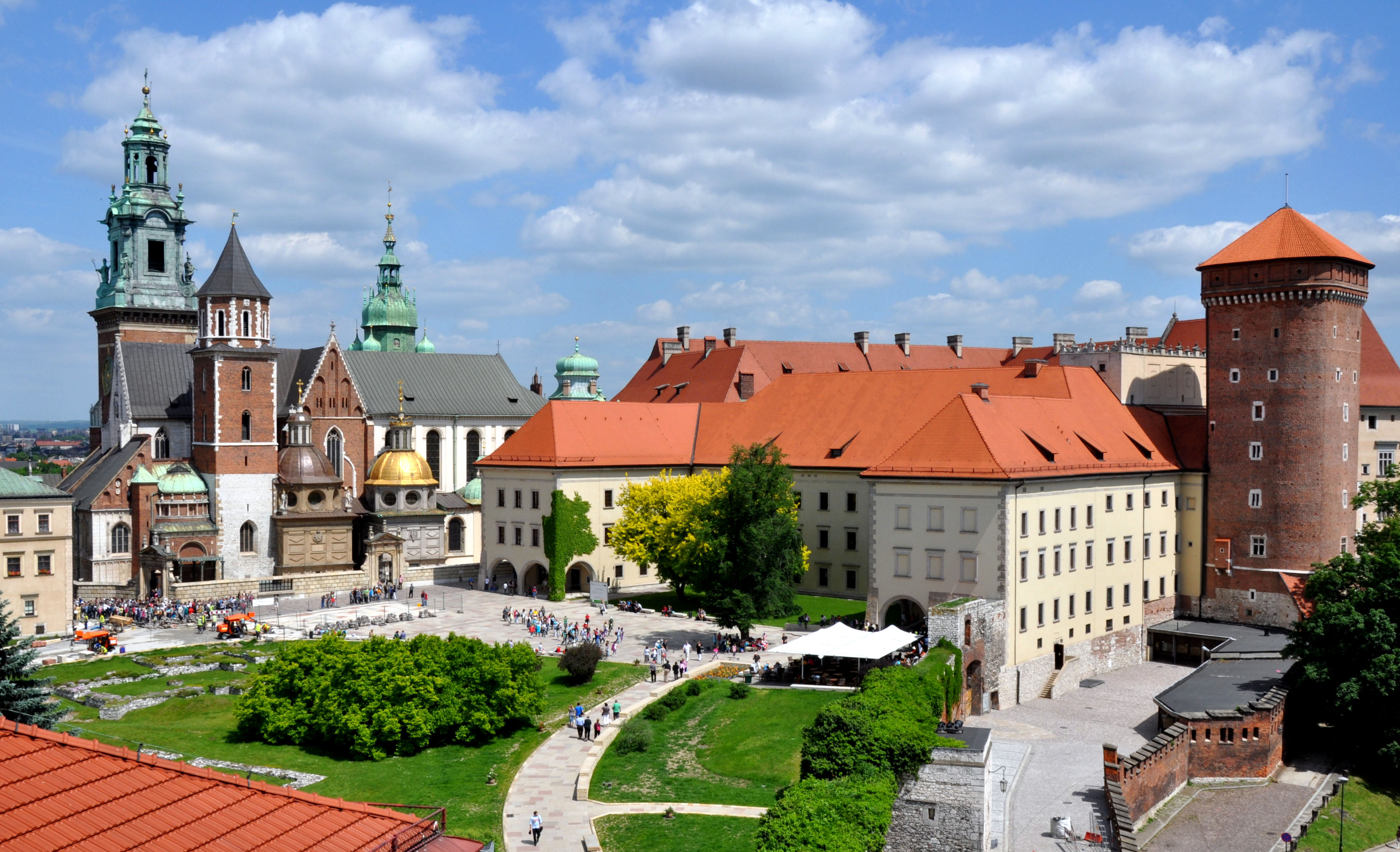 The Wawel Castle and Cathedral in Krakow, Poland